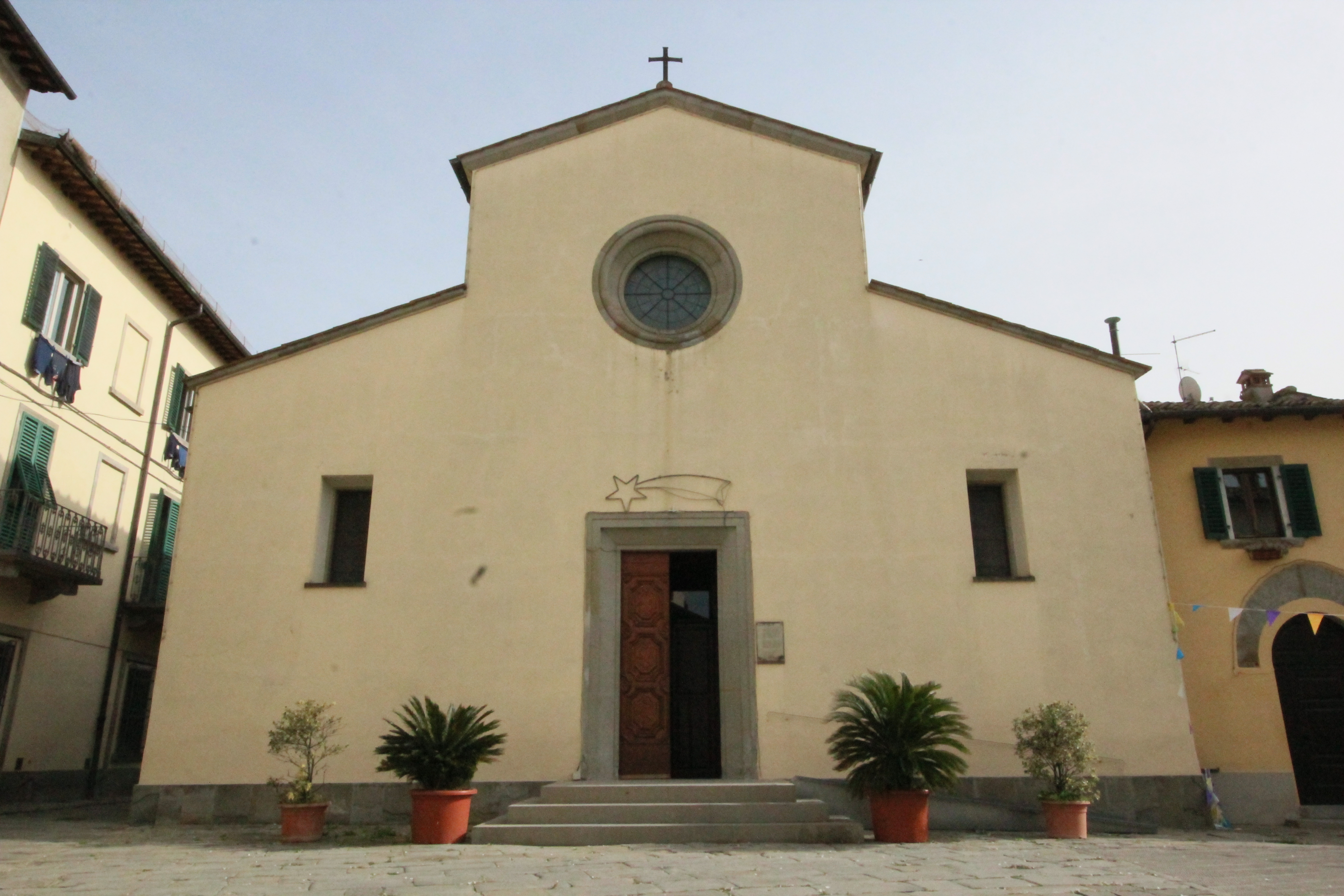 Church (Pieve) San Giustino, in San Giustino Valdarno, hamlet of Loro Ciuffenna, Province of Arezzo, Tuscany, Italy